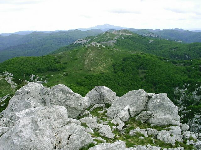 Snježnik hill in Croatia